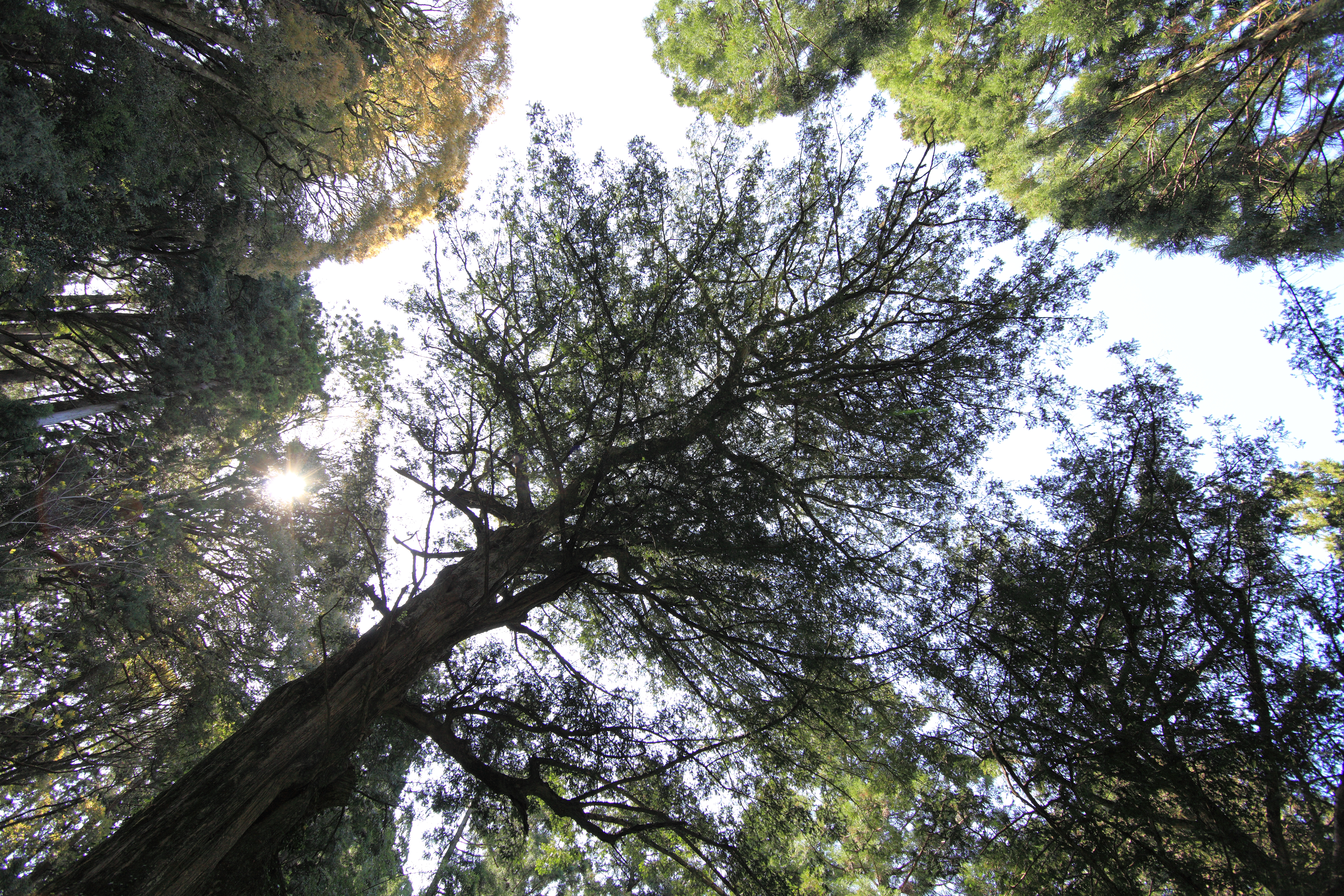 Old Torreya nucifera at Torinoko-sanshou-jinja shrine, Nasu-gun county, Tochigi-ken Prefecture, Japan